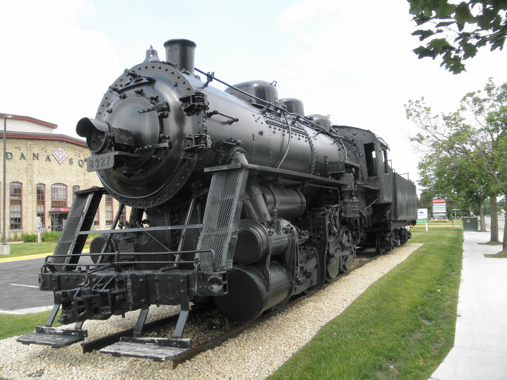 This is Grand Trunk Western 0-8-0 8327, a former Northwestern Steel and Wire engine that was bought by Bandana Square for public display when Bandana first opened. 8327 has been there ever since, and current sports an all-black paint scheme.